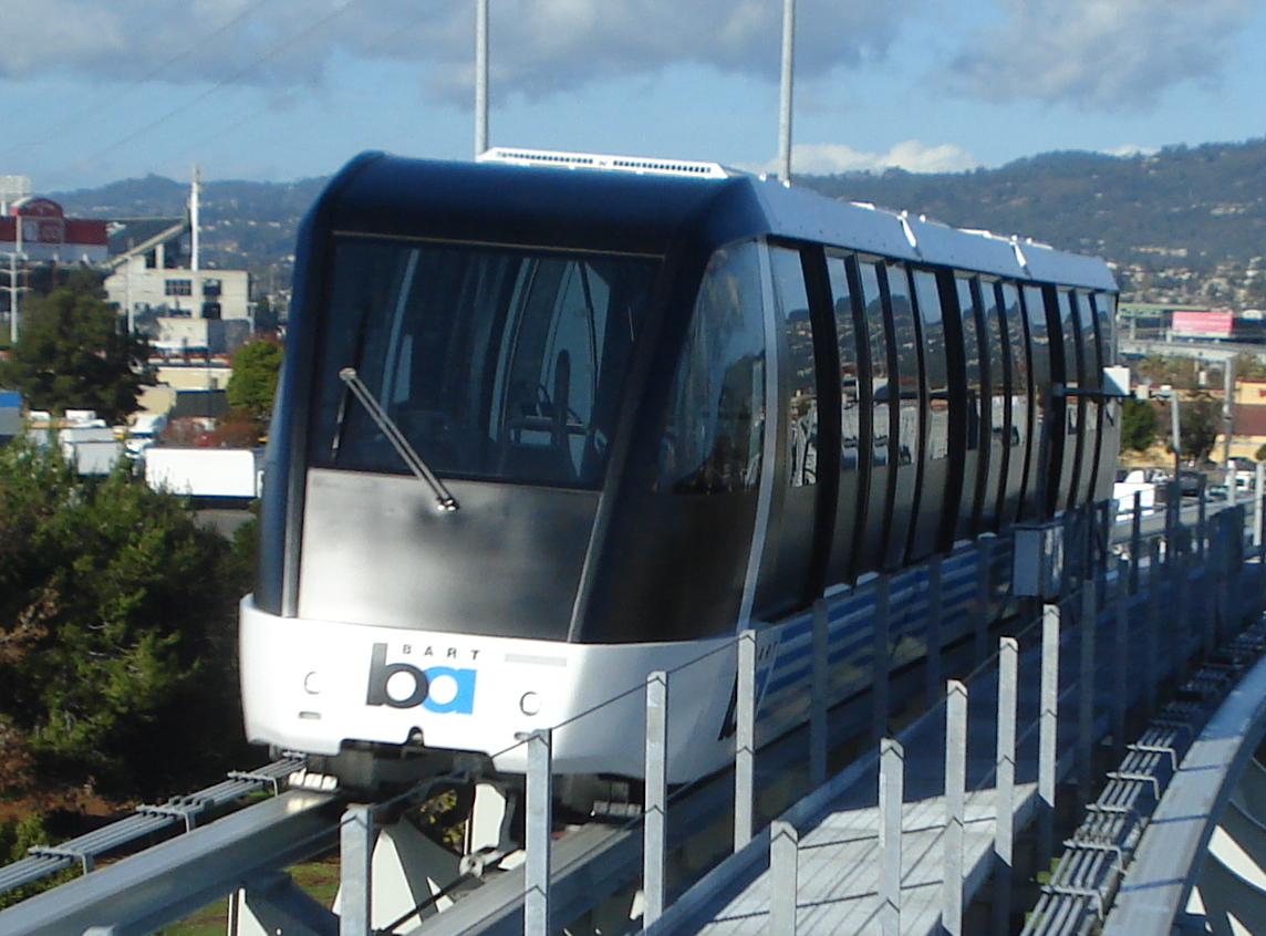 A train for the Oakland Airport-Coliseum BART station people mover